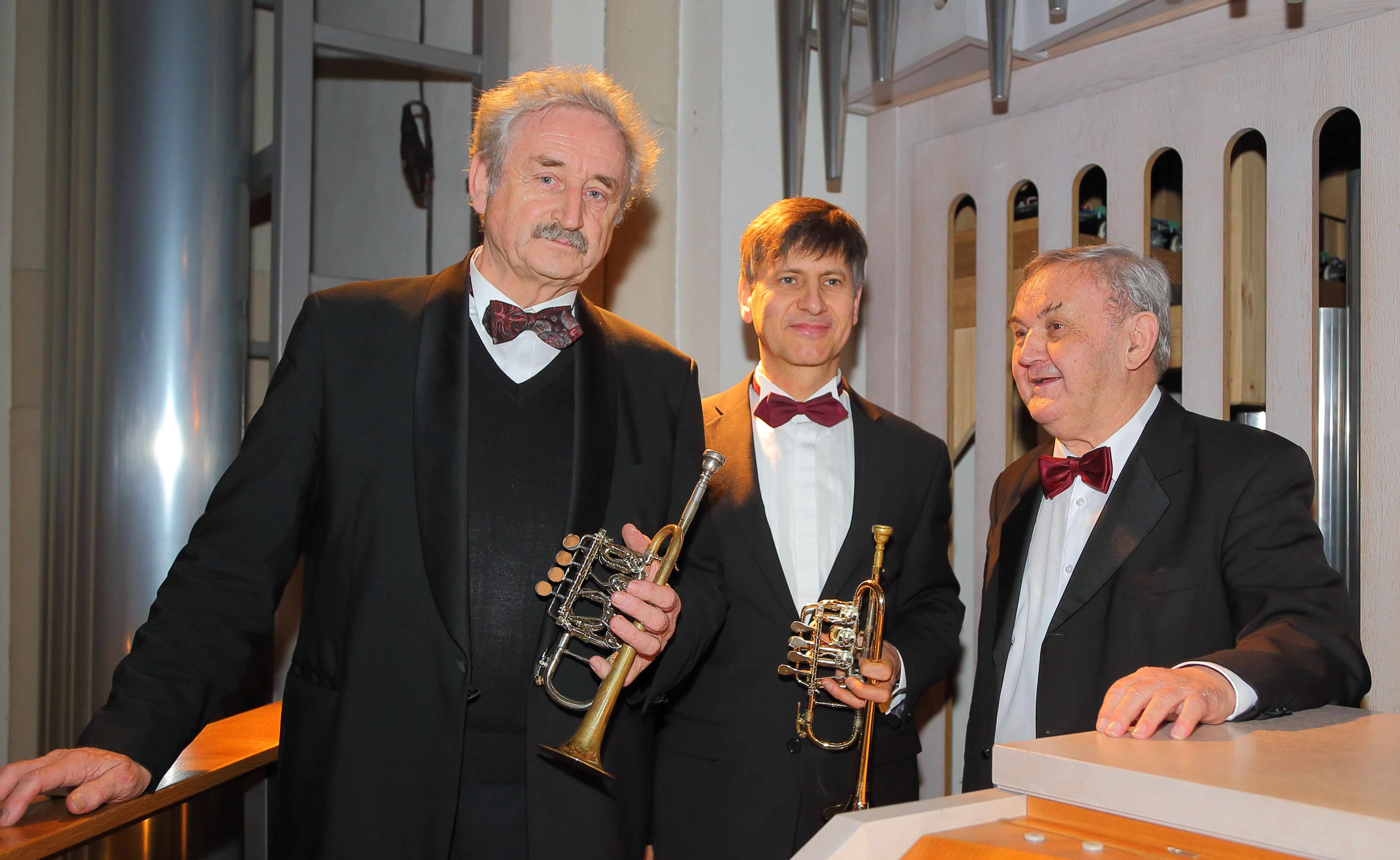 Ludwig Güttler, Volker Stegmann and Friedrich Kircheis (from left to right) after their concert Herzlich lieb hab ich dich, o Herr (From my Heart I Hold You Dear, o Lord) at the Roman Catholic St Agatha Parish Church (Pfarrkirche St. Agatha) in Mettingen, Kreis Steinfurt, North Rhine-Westphalia, Germany.